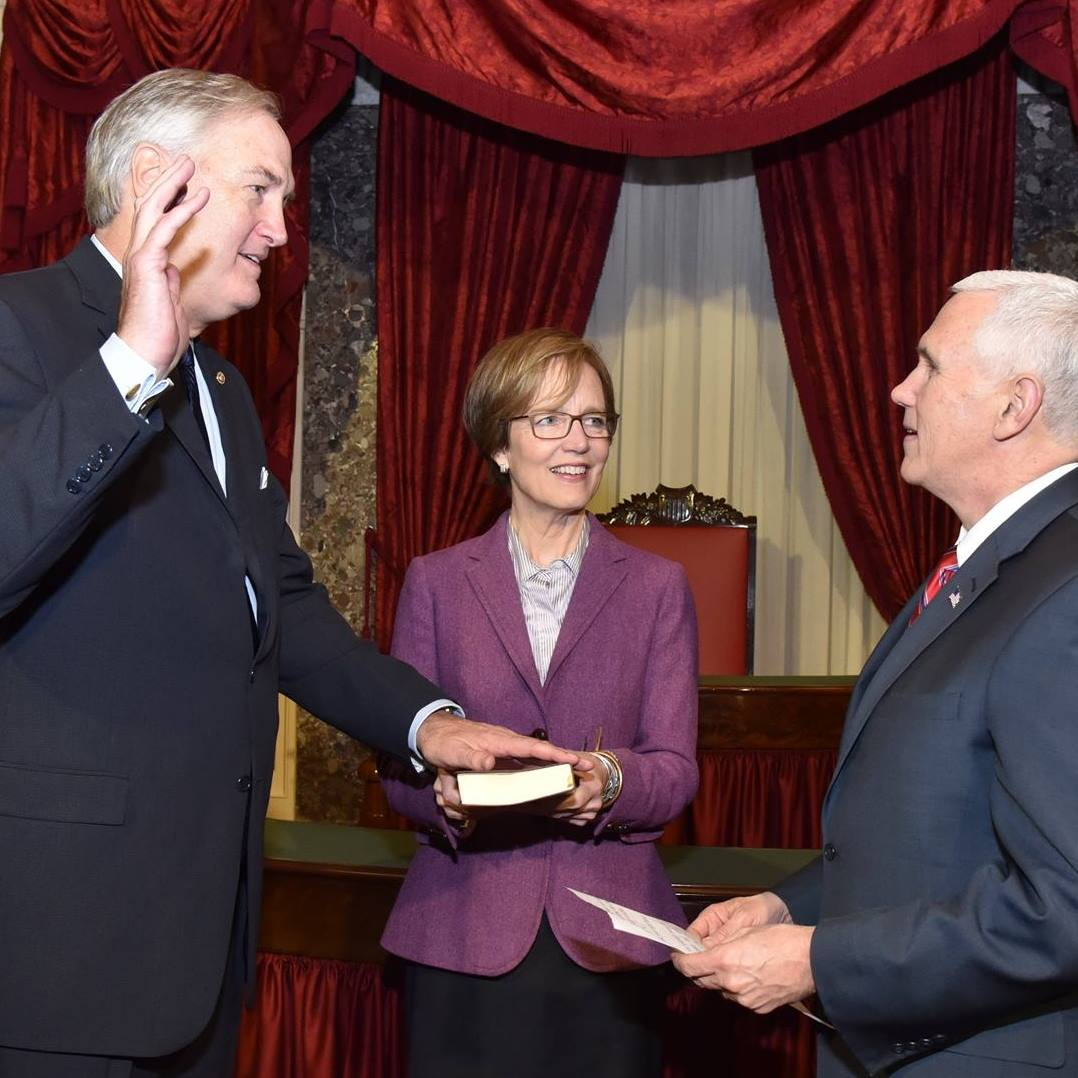 Luther Strange taking oath of office